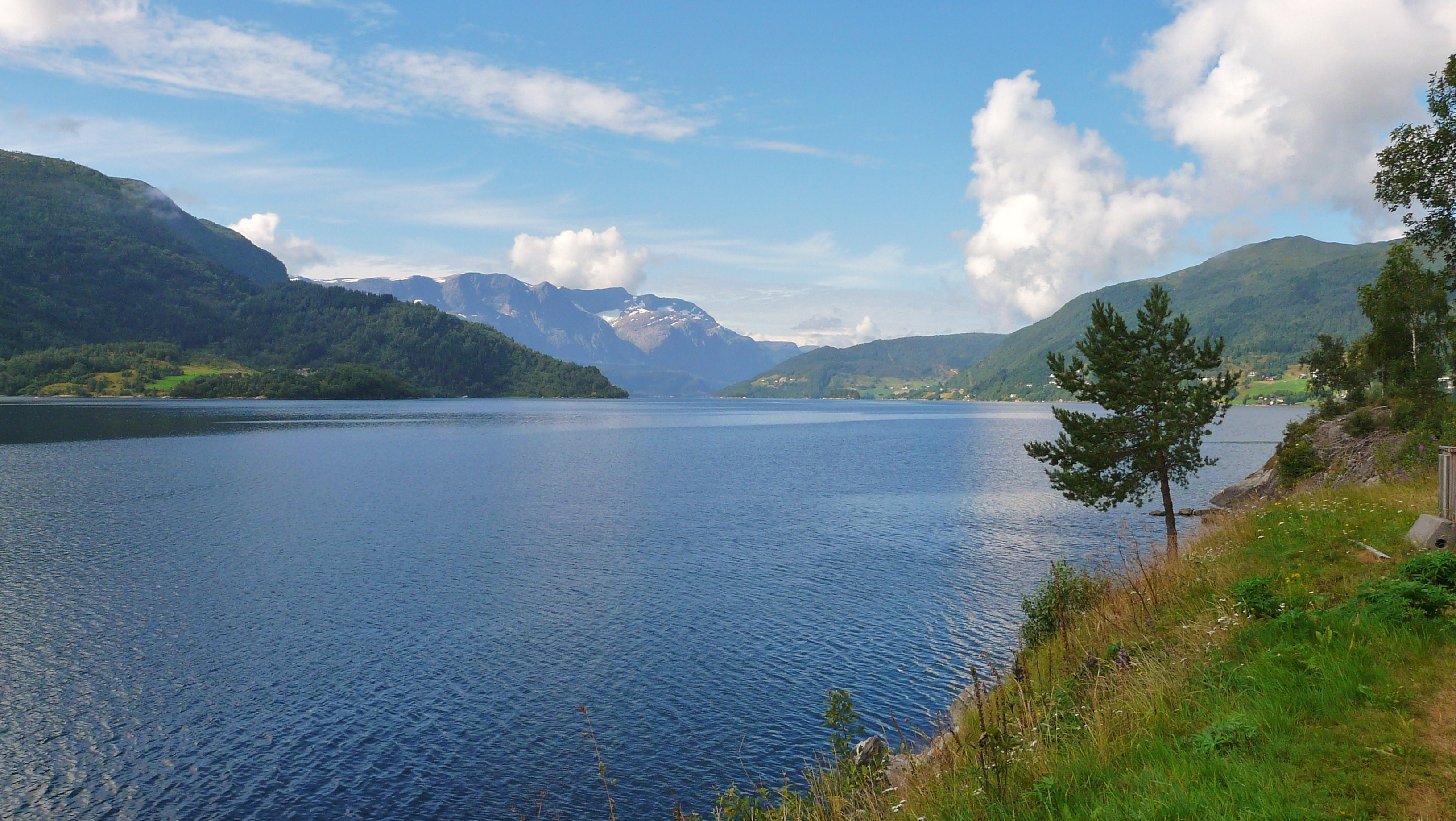 A view to Førdefjorden towards southwest from the northern coast of the fjord by the Riksvei 5 -road in 2008 August.